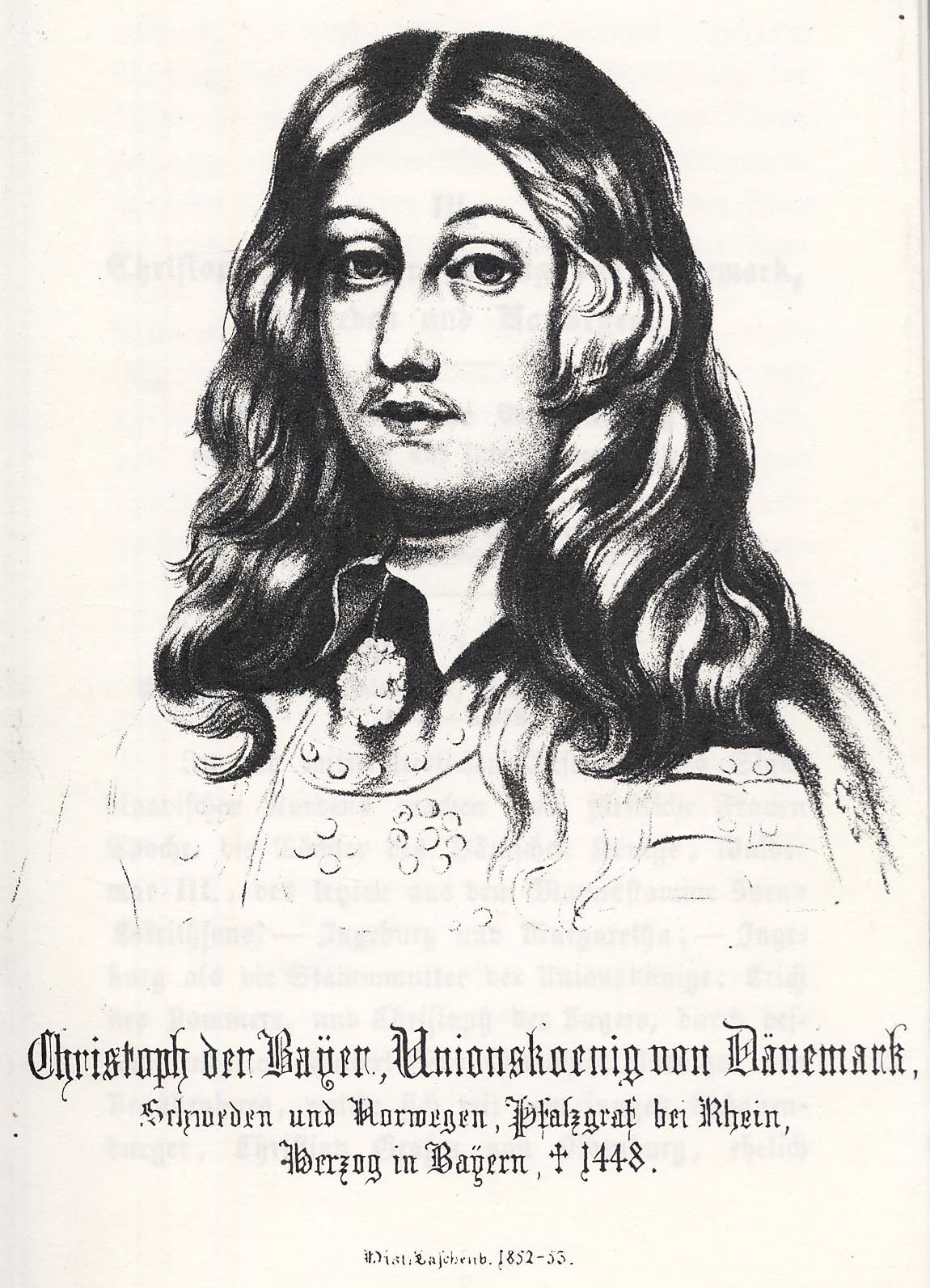 King Christopher the Bavarian of Denmark, Norway and Sweden